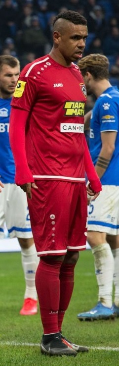 Adessoye Oyewole with FC Tambov in a game against FC Dynamo Moscow.